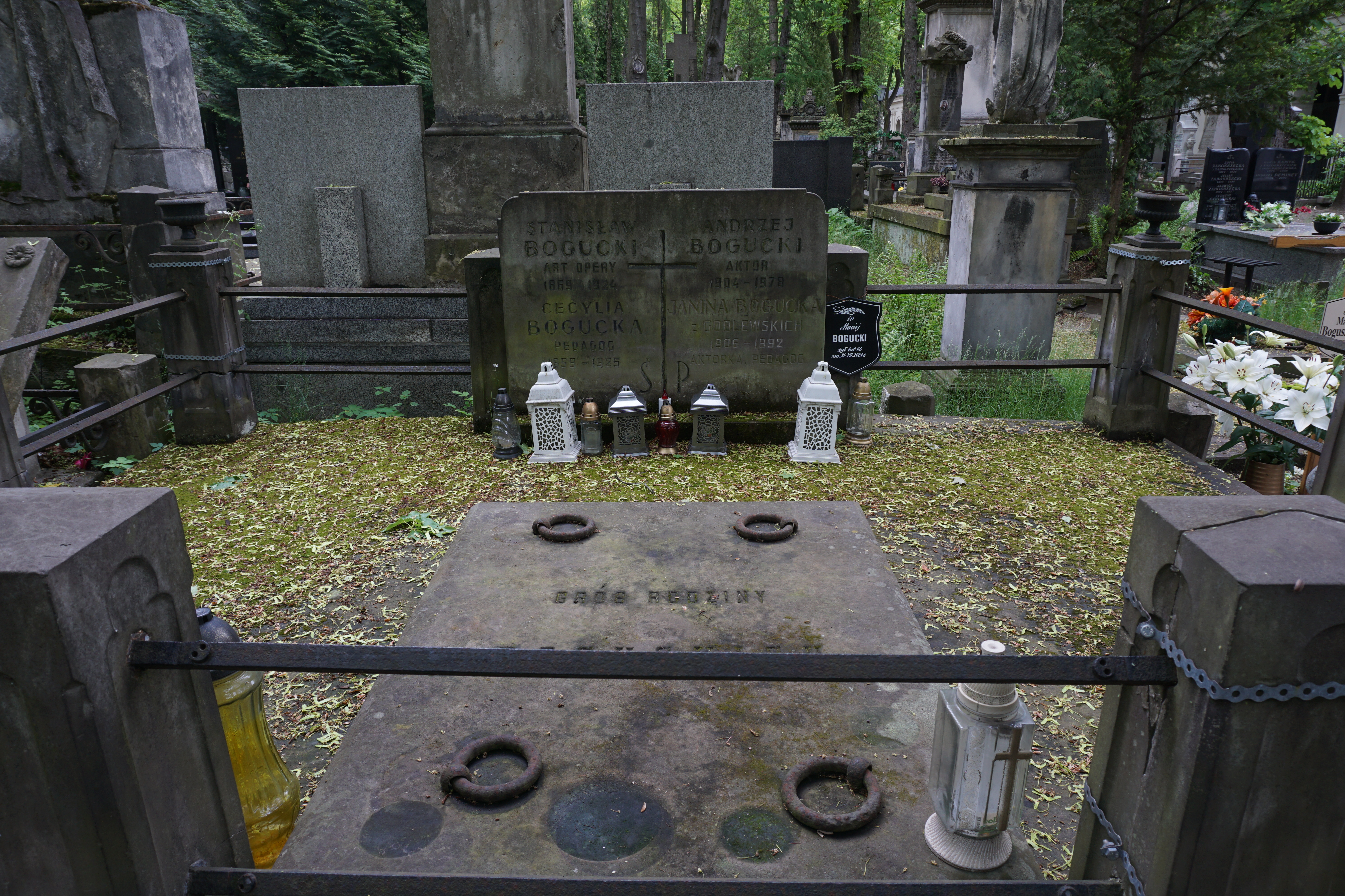 The grave of Andrzej Bogucki at the Powązki Cemetery (section 14, row 4, grave 20, 22)